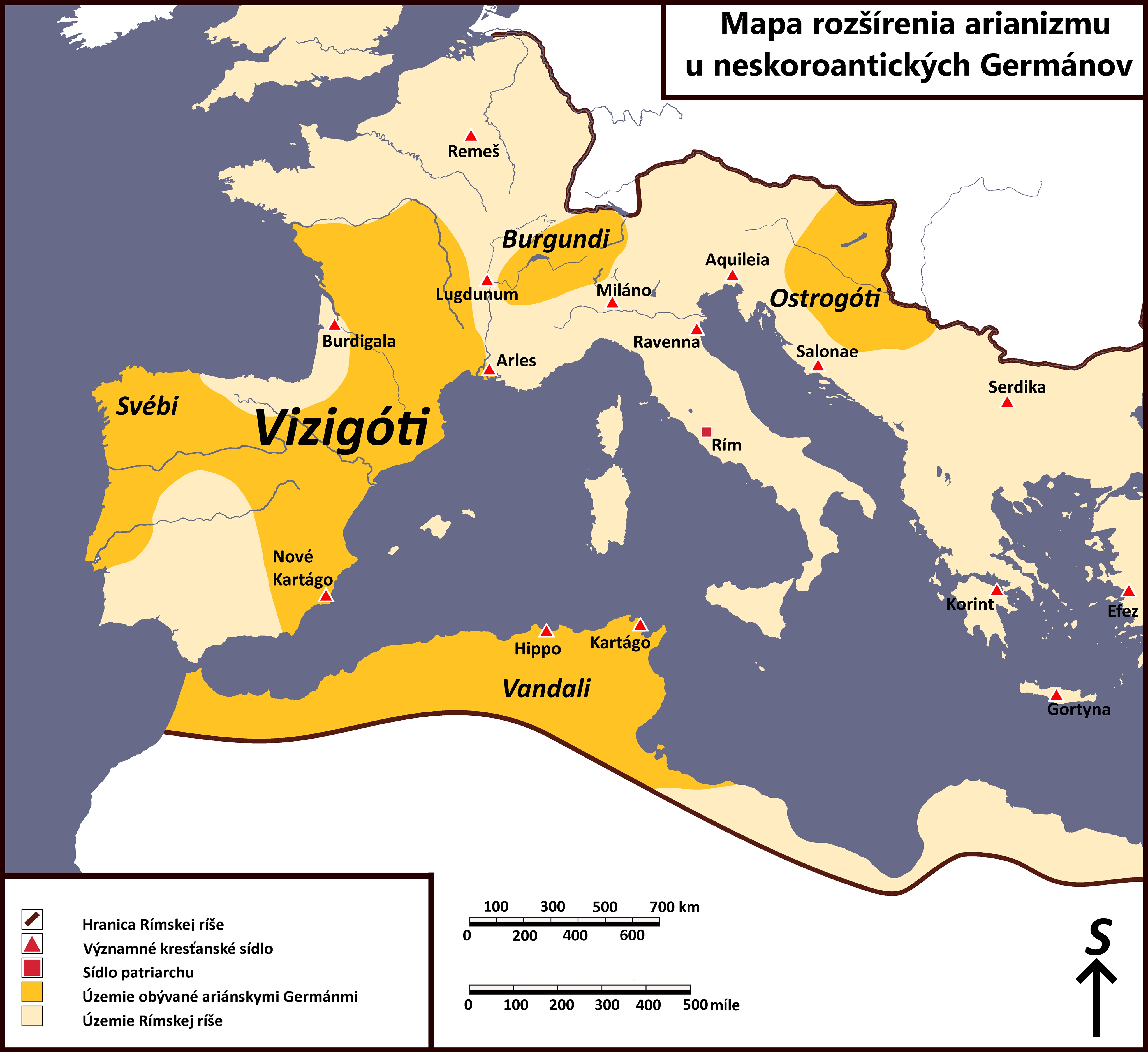 Germanic arians in 5th century, created by: DOWLEY, Tim,:Atlas of Christian History, ISBN:978-1-5064-1688-5 p..30-31